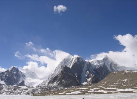 "The lake Gurudongmar/ Gurudogmar in North Sikkim, India 17100 feet above MSL"